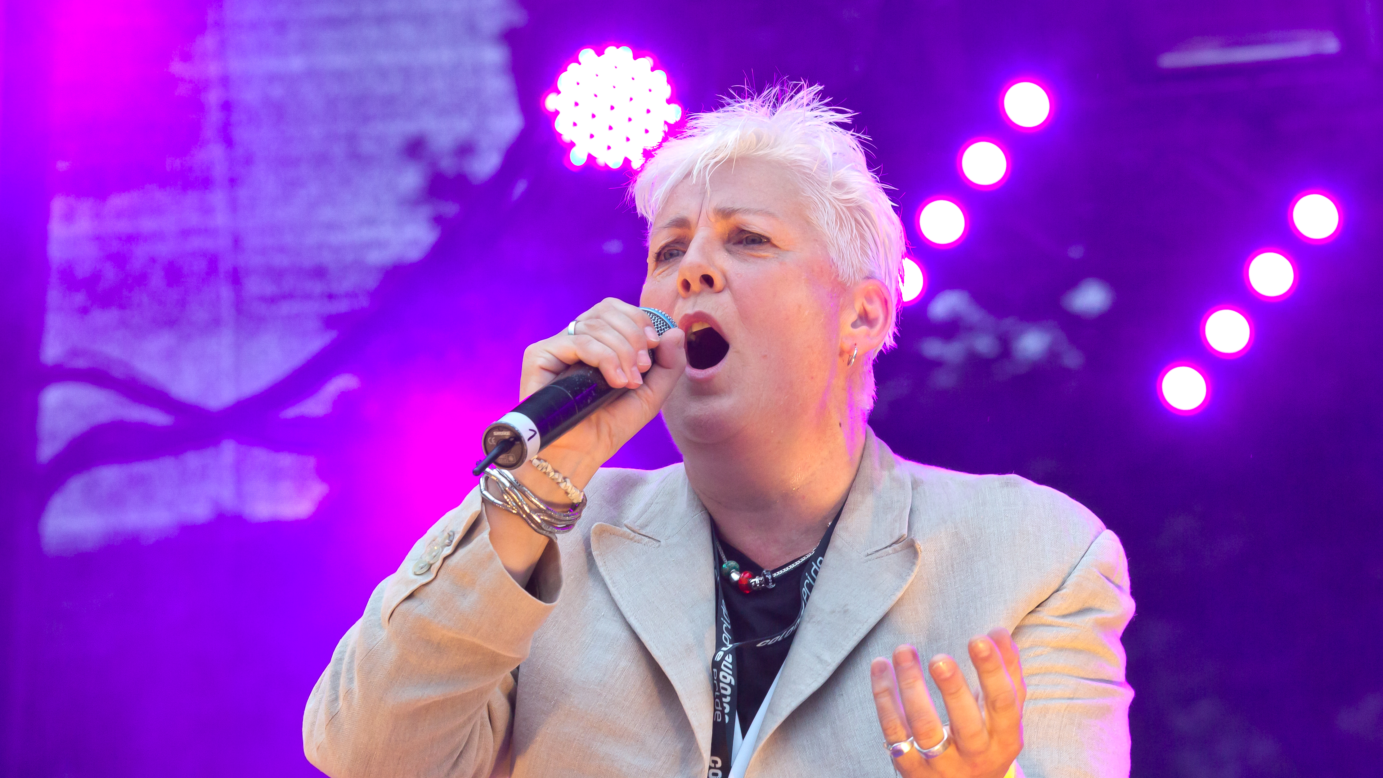 Performance of Horse McDonald on the street festival of the ColognePride